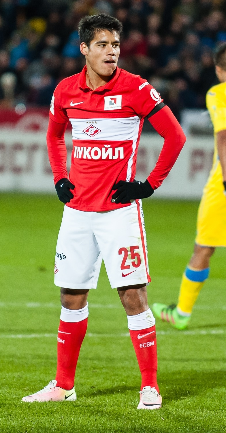 Lorenzo Melgarejo with FC Spartak Moscow in a game against FC Rostov on 2 April 2016.